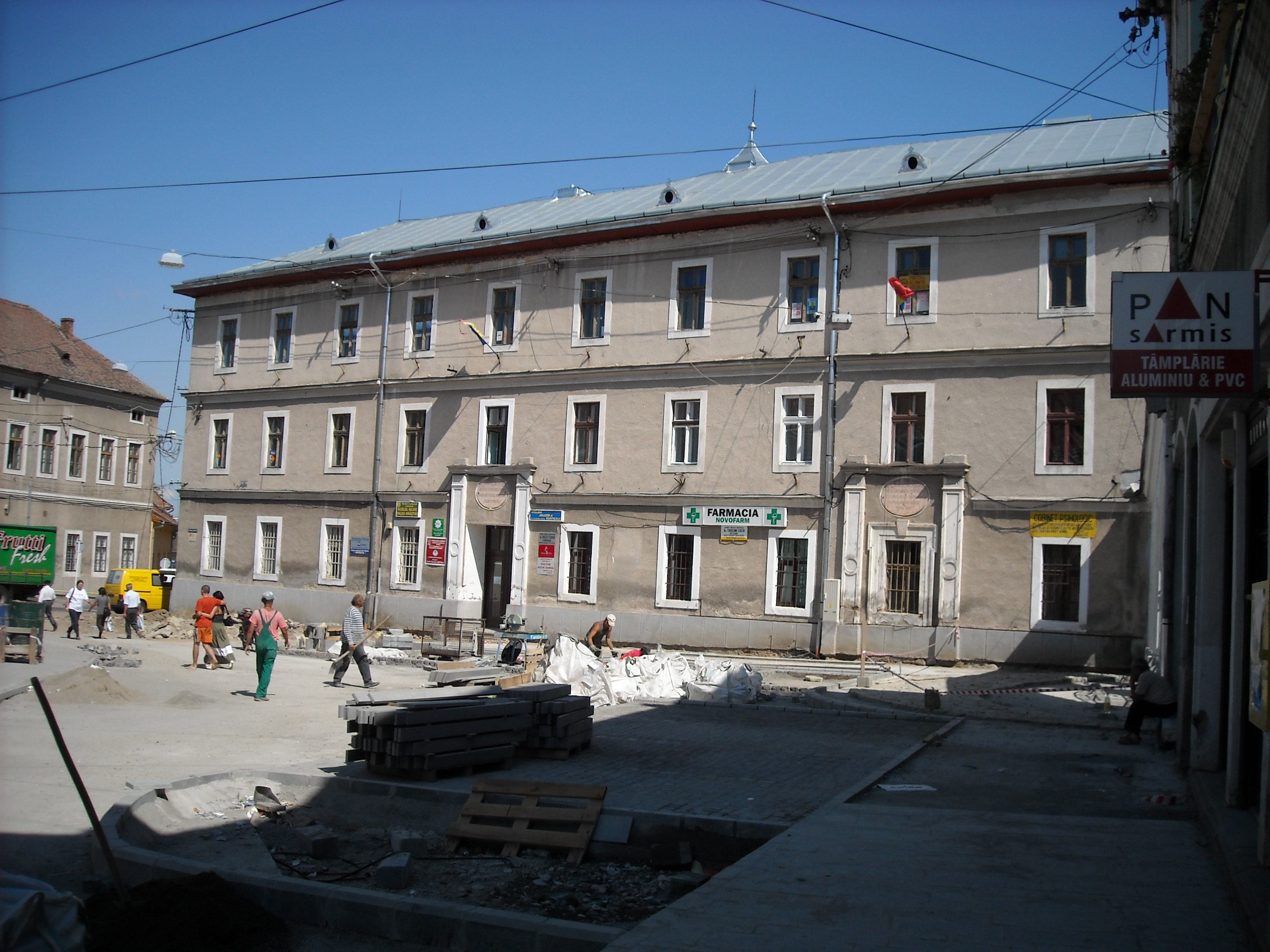 the „old“ building of the Orăştie (Szászváros) Calvinist high school, currently the municipal hospital (built in 1847)